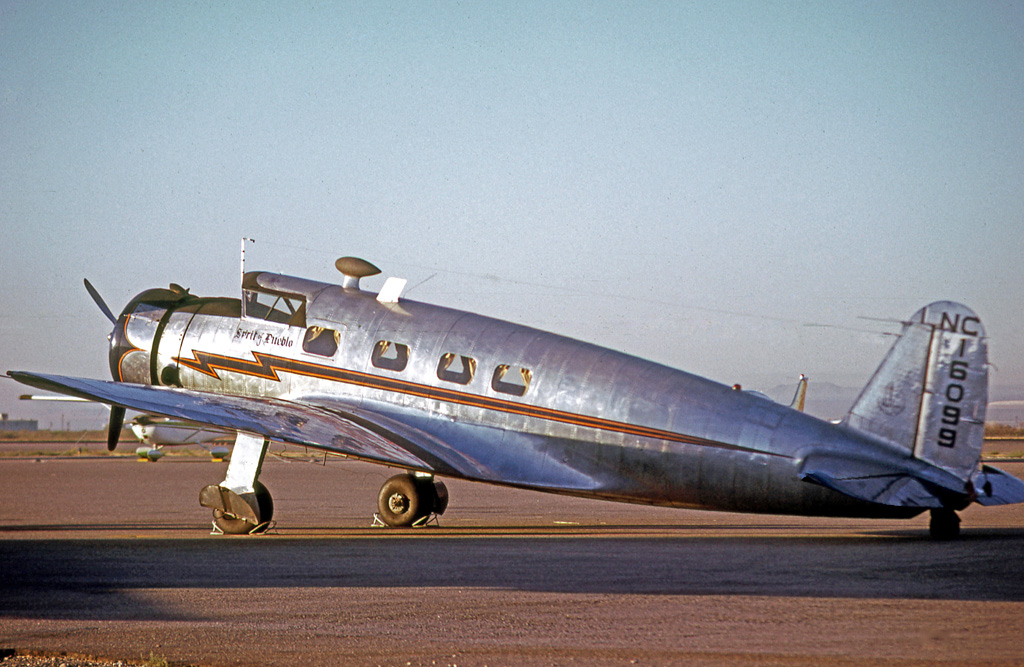 Vultee V-1AD Special NC16099 airworthy at Tucson Airport in 1973